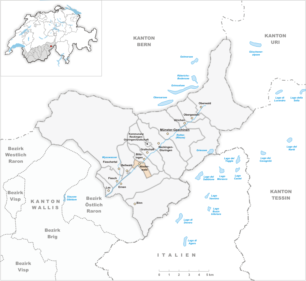 Municipality Niederwald